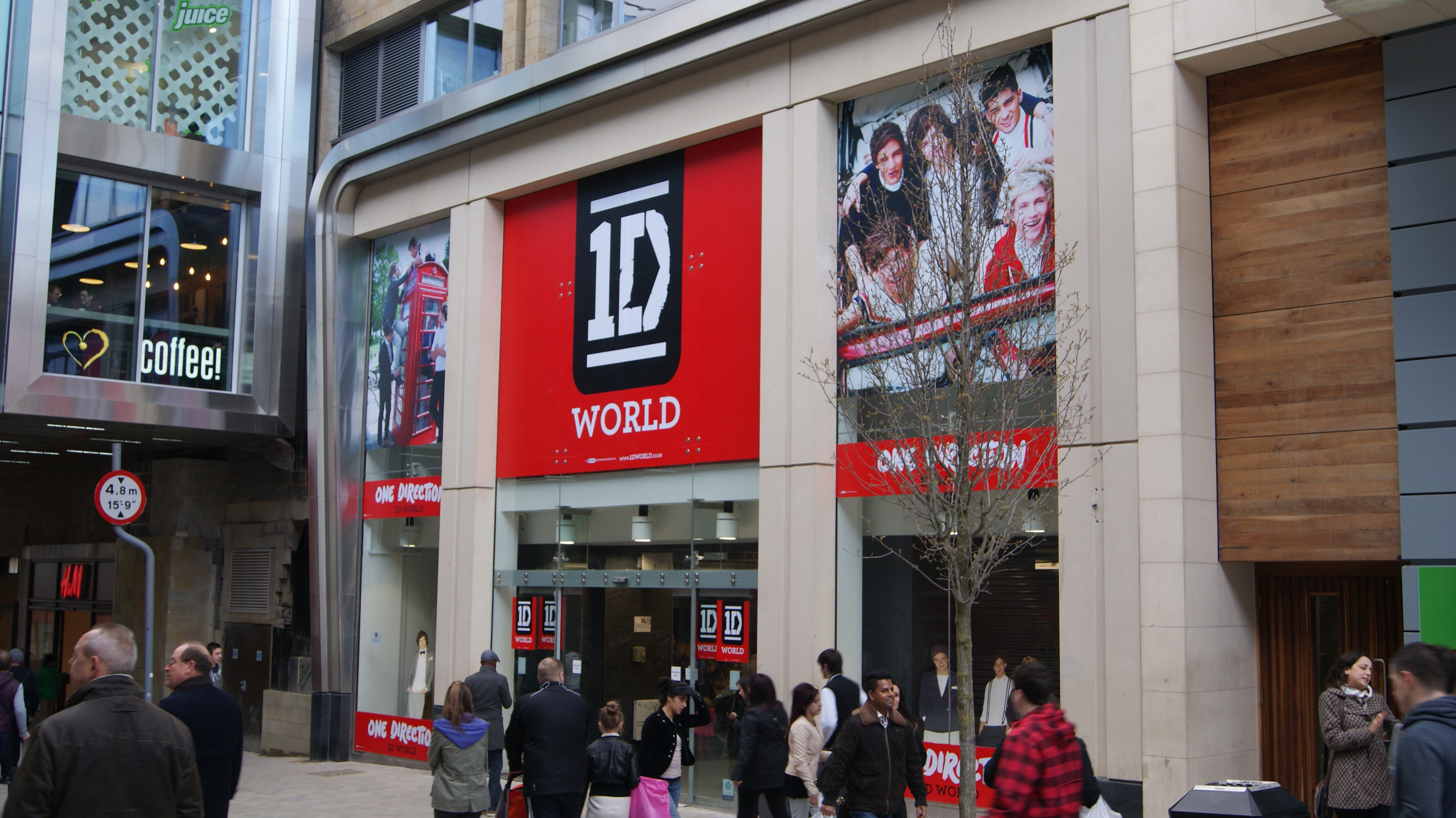 1D World, Albion Street, Leeds, West Yorkshire. Taken on the afternoon of Saturday the 30th of March 2013.